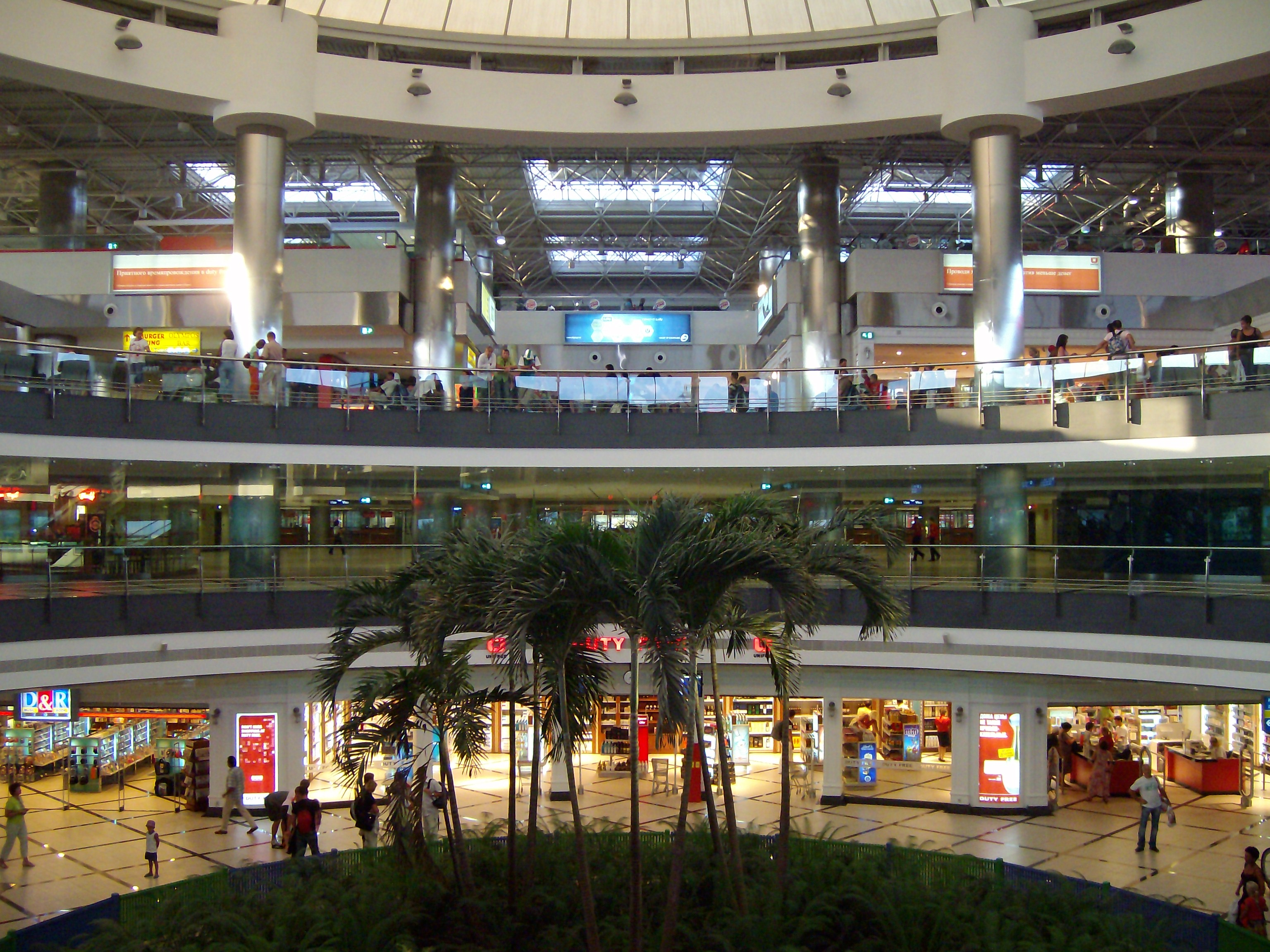 Antalya Airport - International Terminal 2